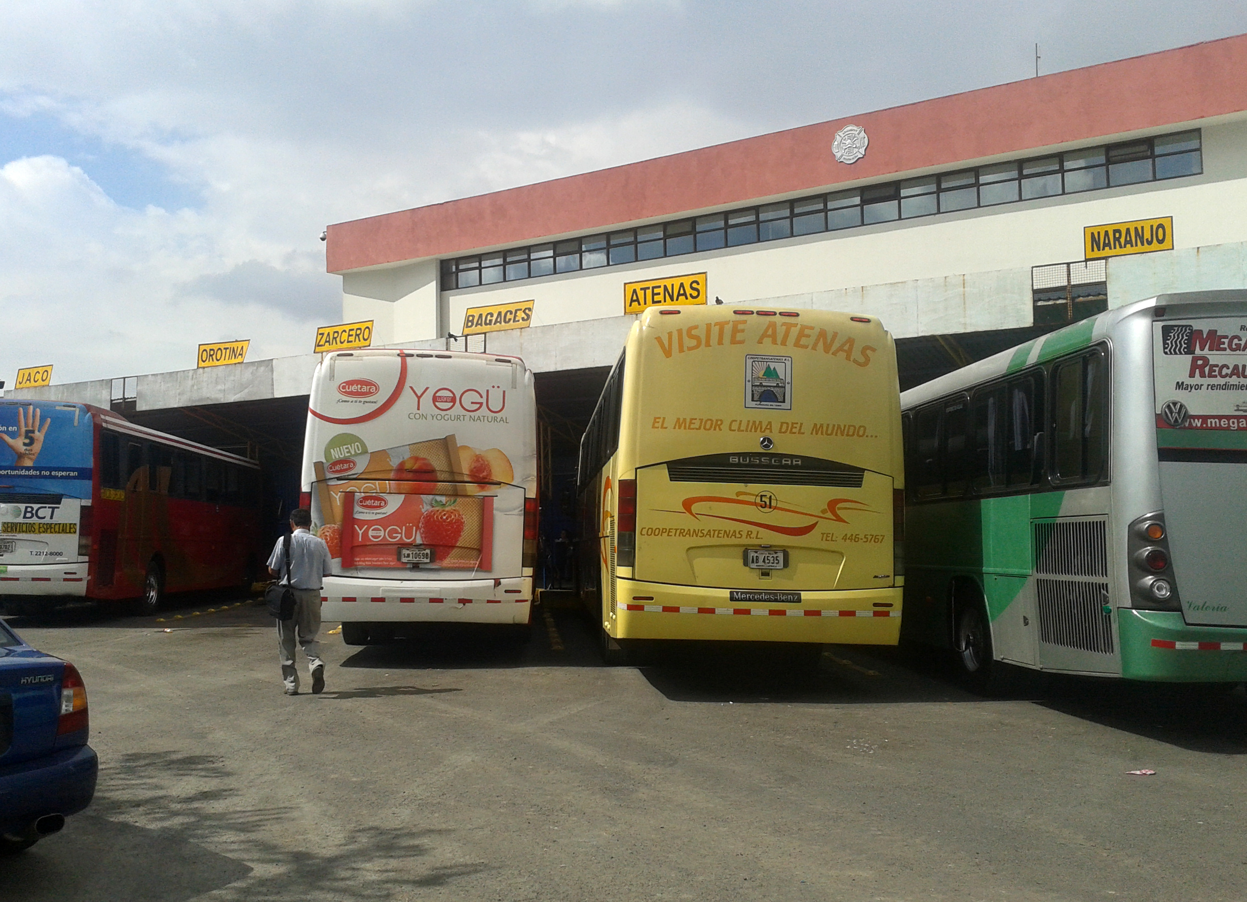 Terminal Coca-Cola in San José, Costa Rica